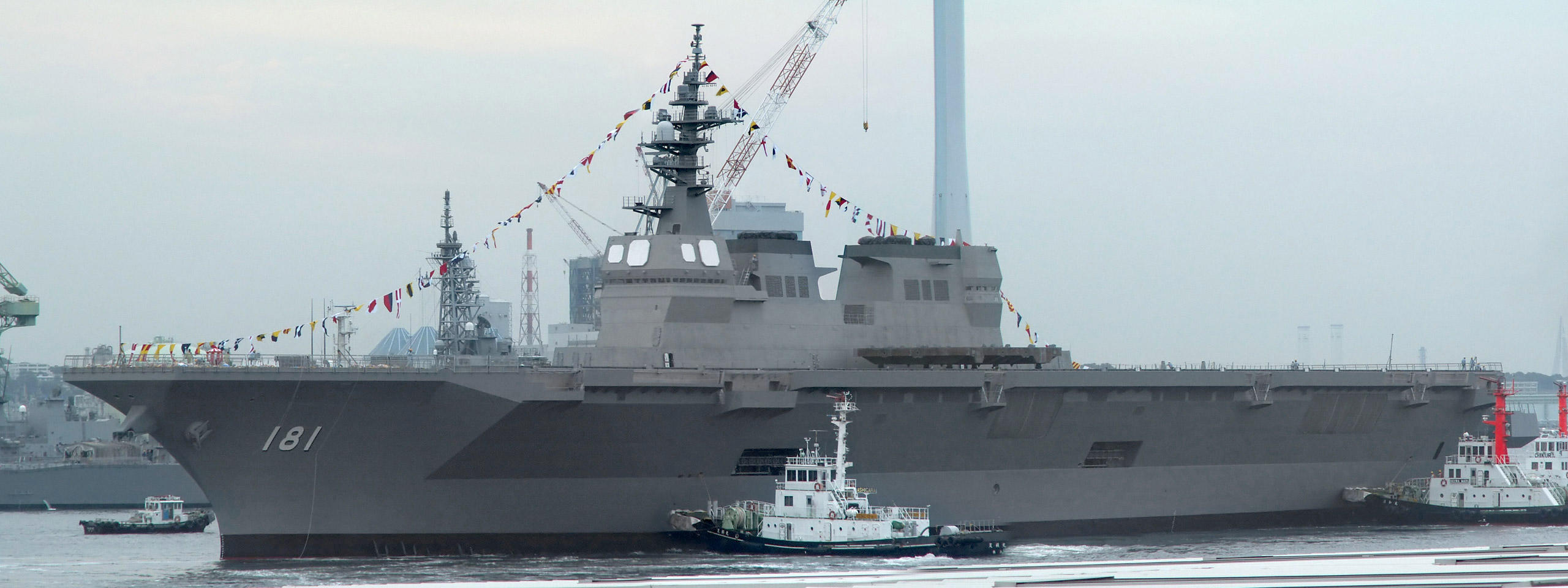 JMSDF_DDH_181 Hyuga class destroyer (Taken at Yokohama,Japan)